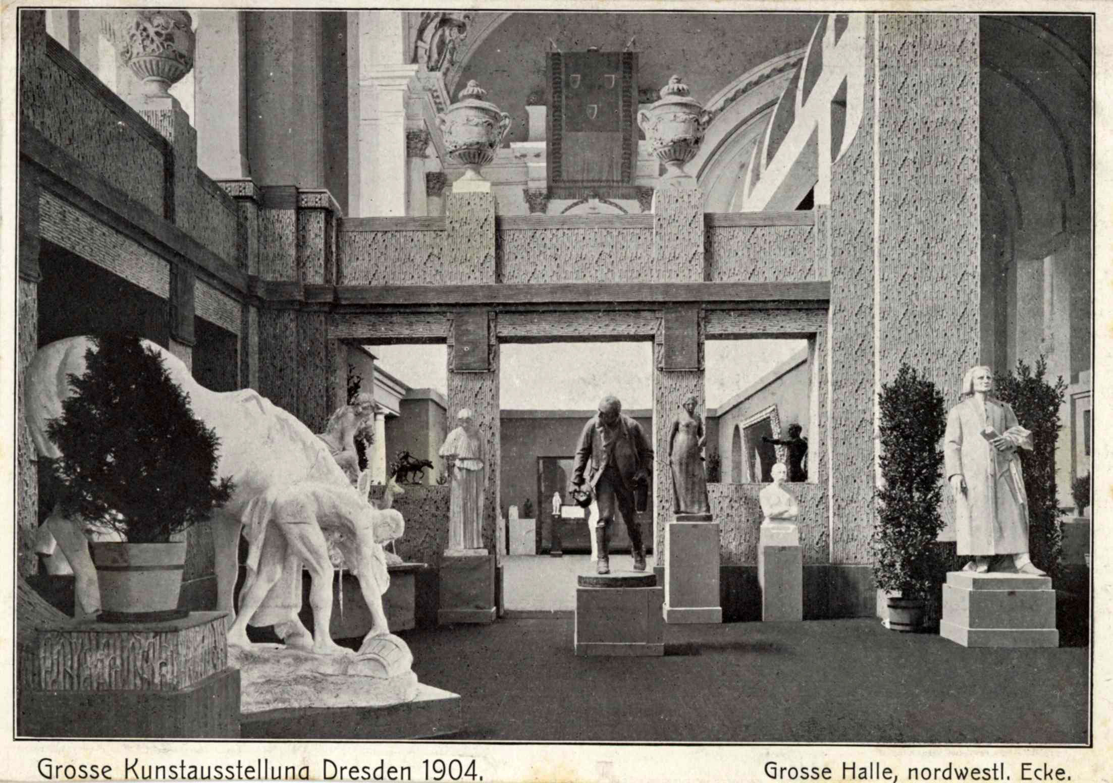 Exhibition Palace of Dresden (1904), printed Alwin Arnold & Gröschel